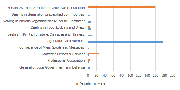 A chart showing the male and female occupations for the population of Radwinter according to the 1881 census